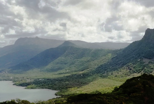 View of Ebony forest and Black river from Le Morne